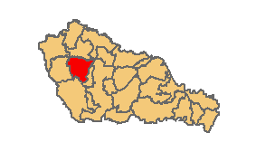 Location of municipality inside Međimurje County